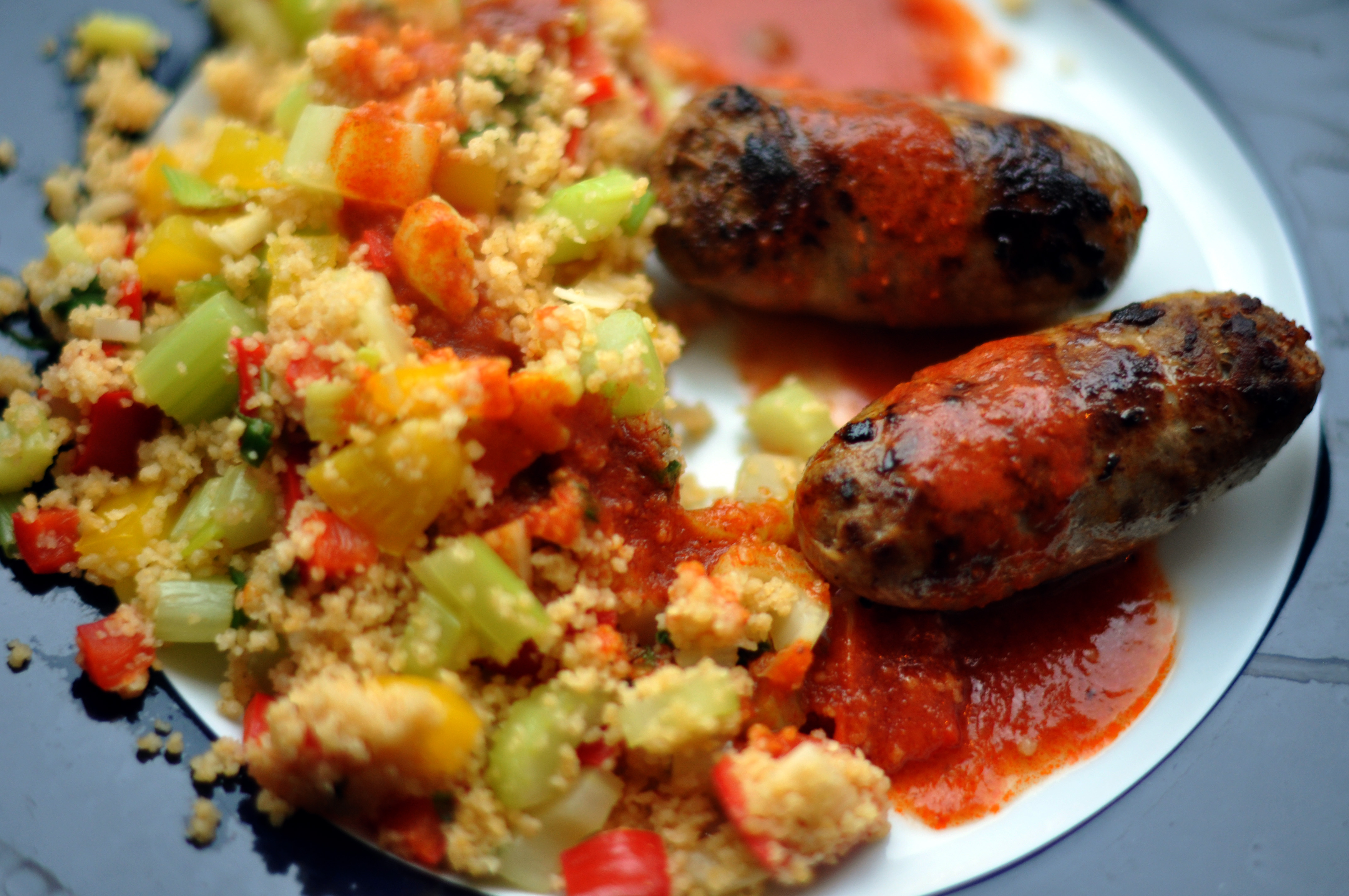 Hjemmelavede merguez-pølser med couscous og harissa (Homemade merguez sausages with couscous and harissa)